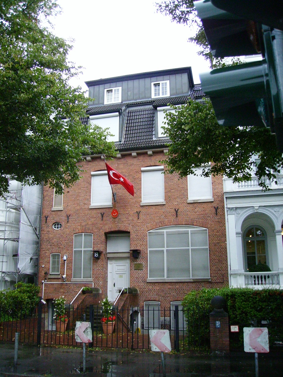 Turkish consulate-general in Hamburg, Tesdorpfstrasse #18